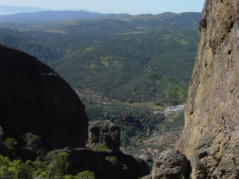 Pinnacles National Monument — central California. View west from the high pinnacles looking over hills covered in chaparral.